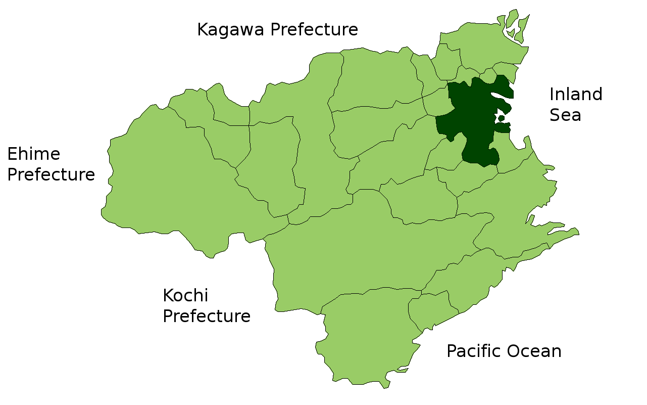 Map of Tokushima Prefecture highlighting Tokushima city. Borders of map as of October, 2006. (blank map used from [1]) See also Image:TokushimaMapCurrent.png